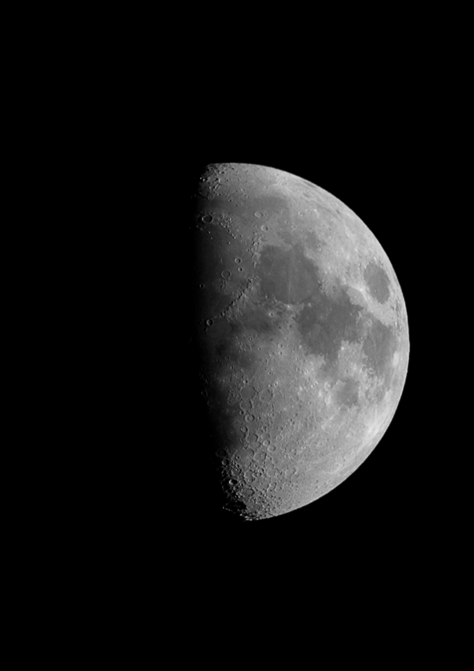 Moon Age of the month 8.3